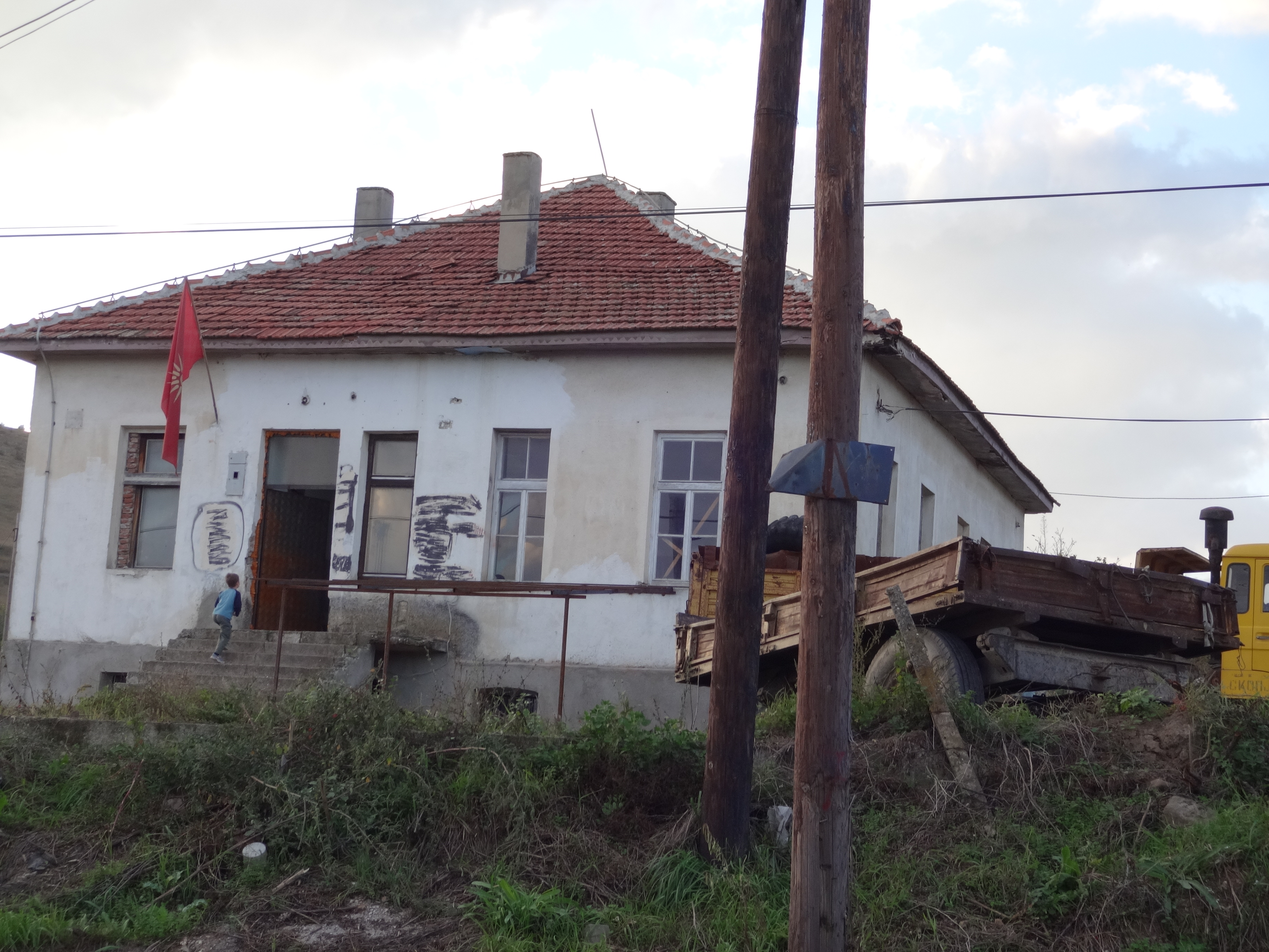 Village Brazda near Skopje, Macedonia